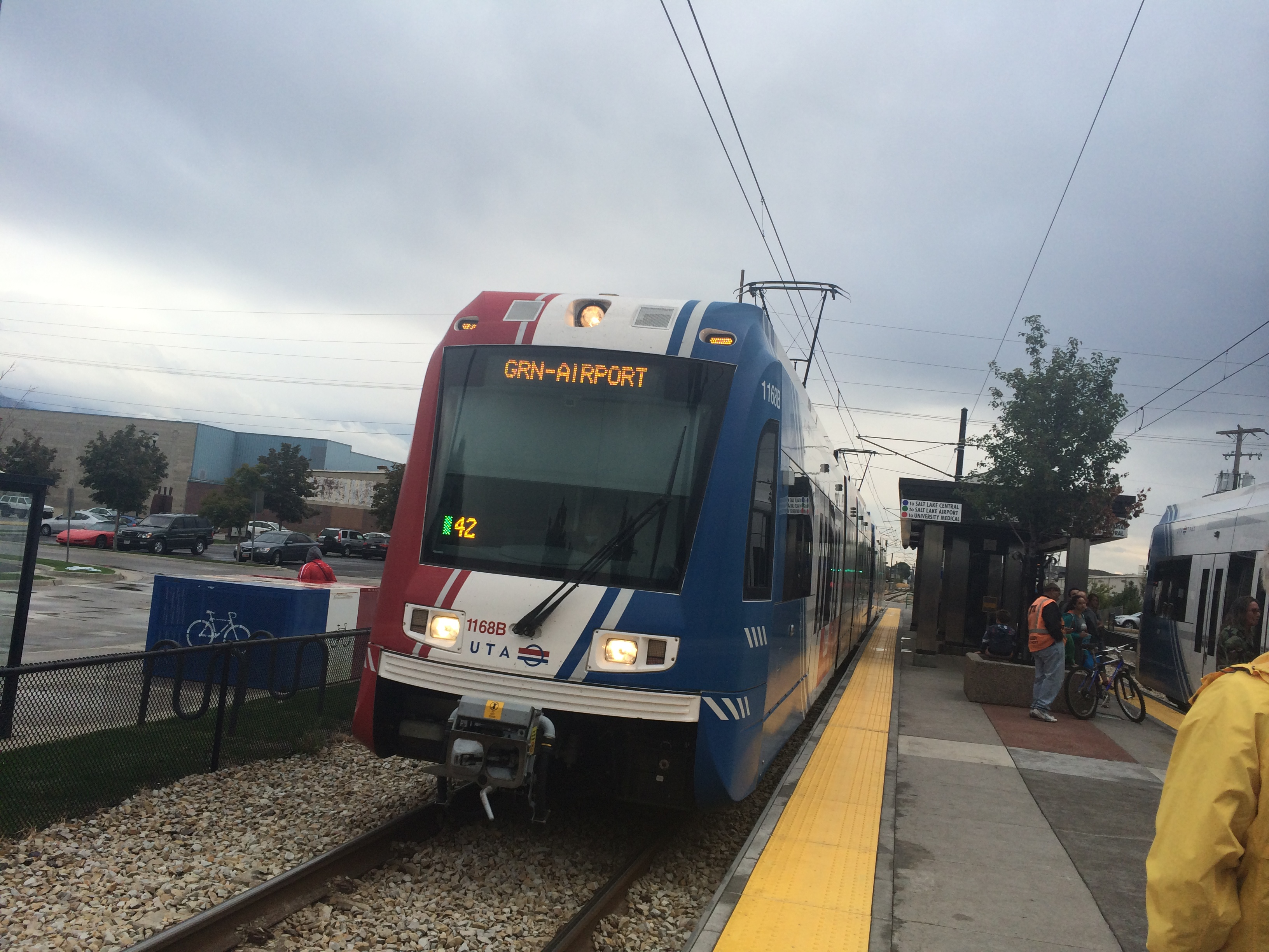 A Utah Transit Authority northbound Green Line TRAX train in the Ballpark station, Salt Lake City